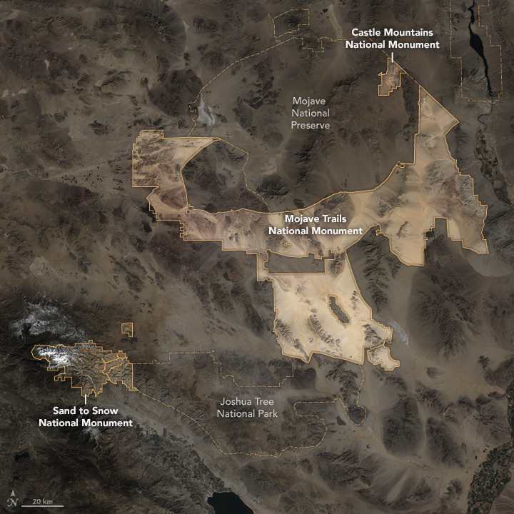 In February 2016, the United States government established the world’s second-largest desert preserve. In designating three new national monuments in the California desert, the U.S. Department of the Interior added 1.8 million acres to an existing 7.6 million acres of protected land. This image from the Operational Land Imager (OLI) on Landsat 8 shows how they all connect. (The image is a composite of satellite data from Landsat 8 passes on February 8 and February 17, 2016.) The western edge of Sand to Snow National Monument is located about 120 kilometers (75 miles) east of downtown Los Angeles. This aptly named monument encompasses 150,000 acres from the floor of the Sonoran Desert to the mountaintops in San Bernardino National Forest. Ecological diversity at the various altitudes makes this monument unique. Hikers encounter some of this diversity along 50 kilometers (30 miles) of the Pacific Crest Trail that crosses through the monument, from Whitewater Canyon up 2100 meters (7,000) feet to Mission Springs. Desert oases, like the one in the top photograph below, are important refuges for animals and critical stopover spots for migrating birds.